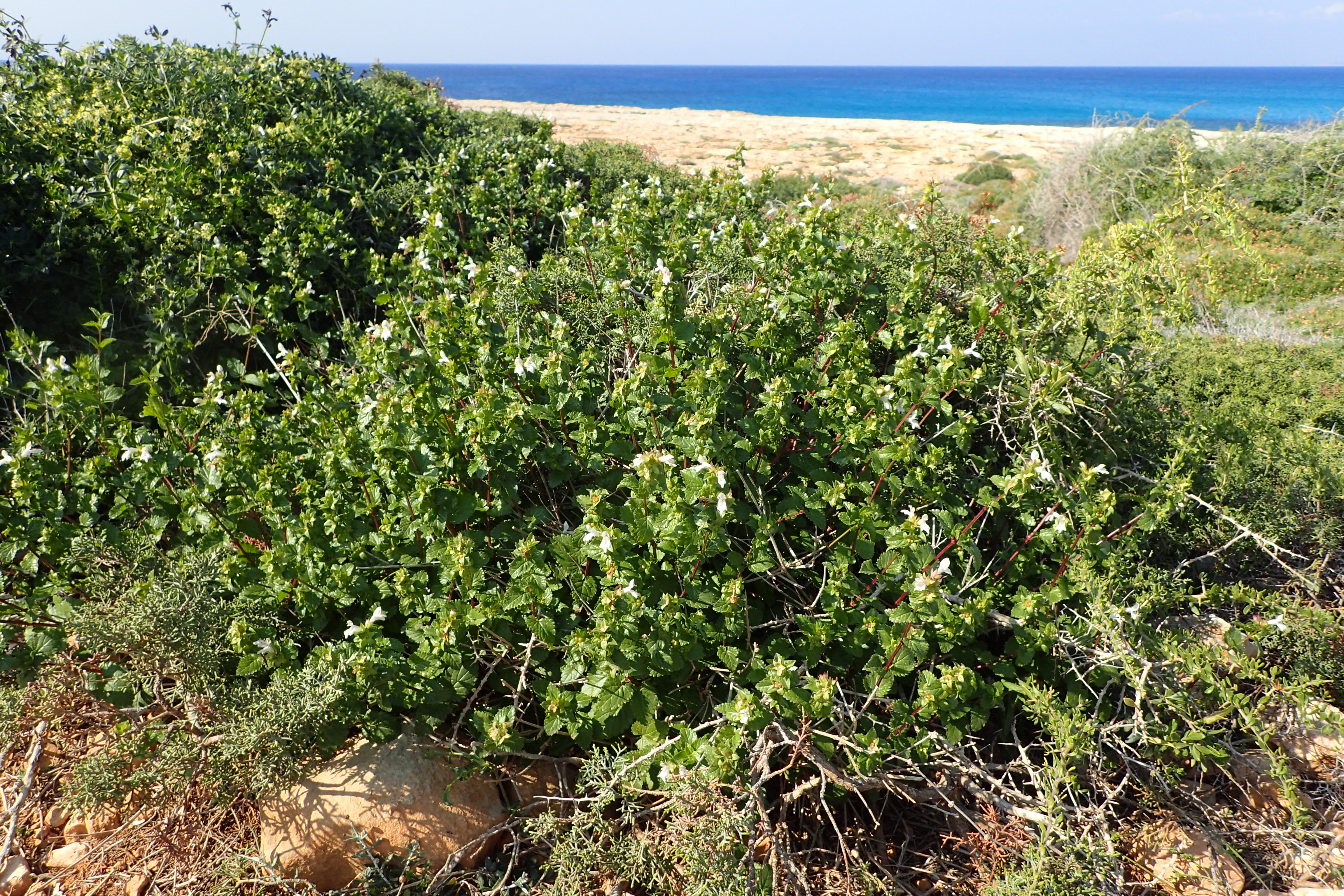 Prasium majus in Kavo Gkreko, Cyprus